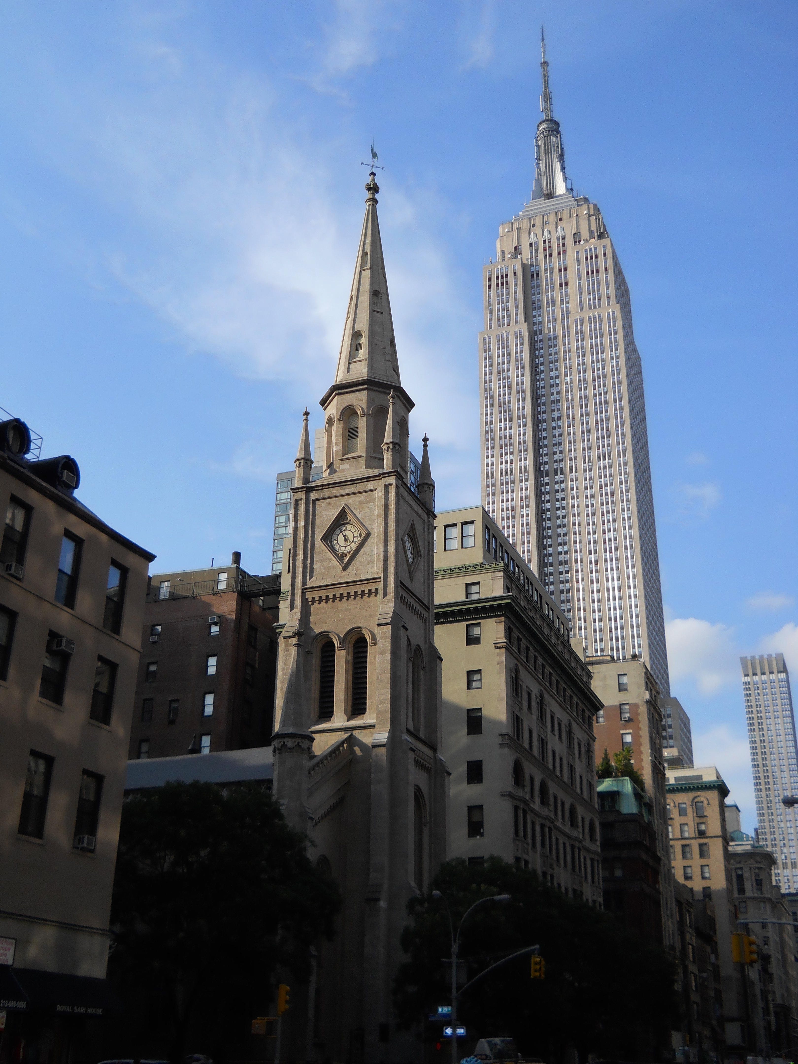 Fifth Avenue, Marble Collegiate Church and Empire State Building August 2012